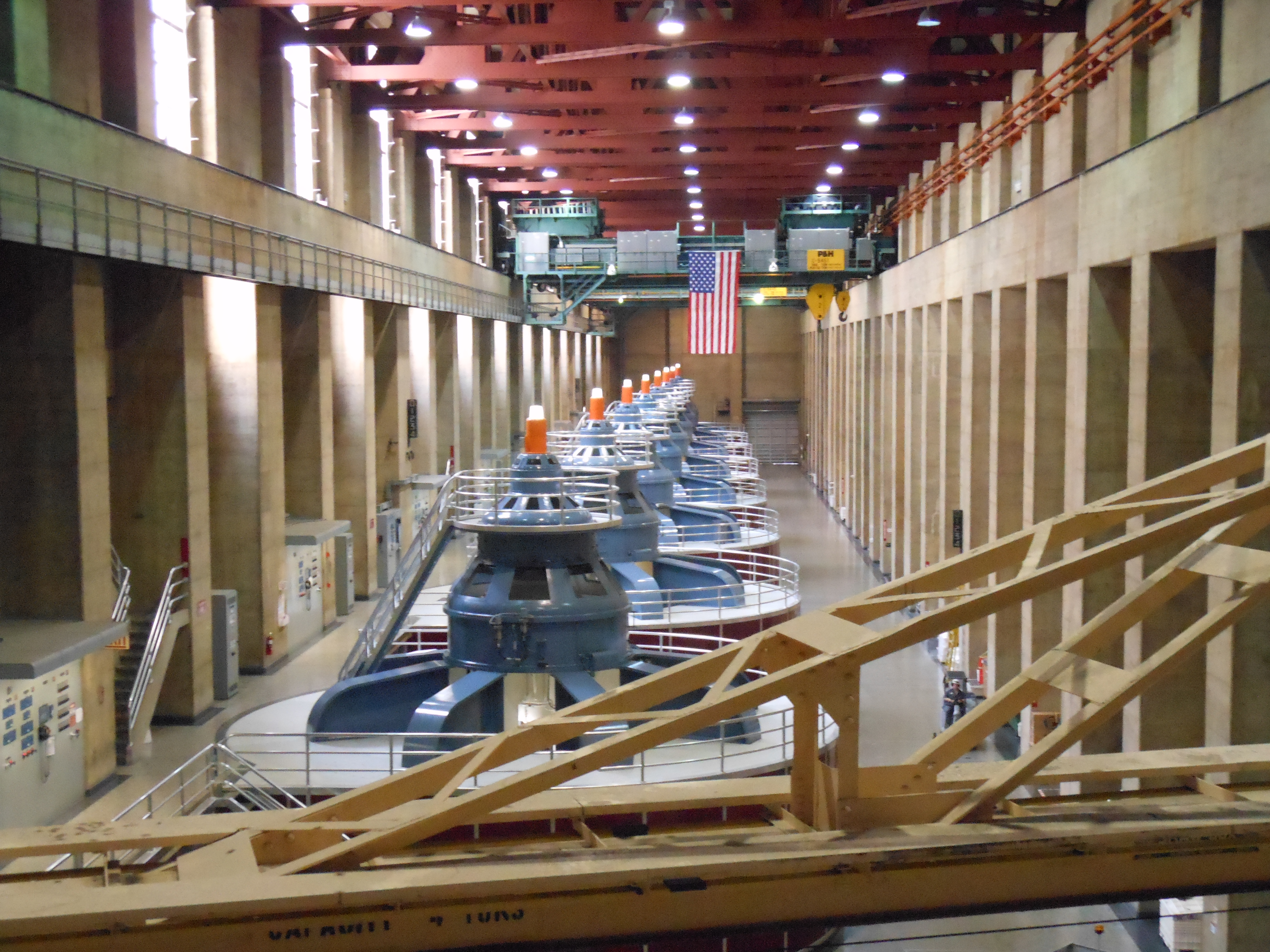 Series of massive electrical generators beneath the Hoover Dam